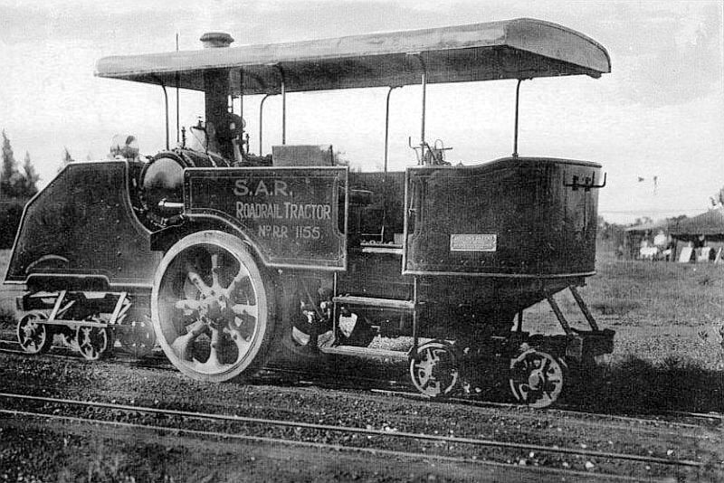 Dutton's Road-Rail tractor no. RR1155, rebuilt from a William Beardmore steam tractor